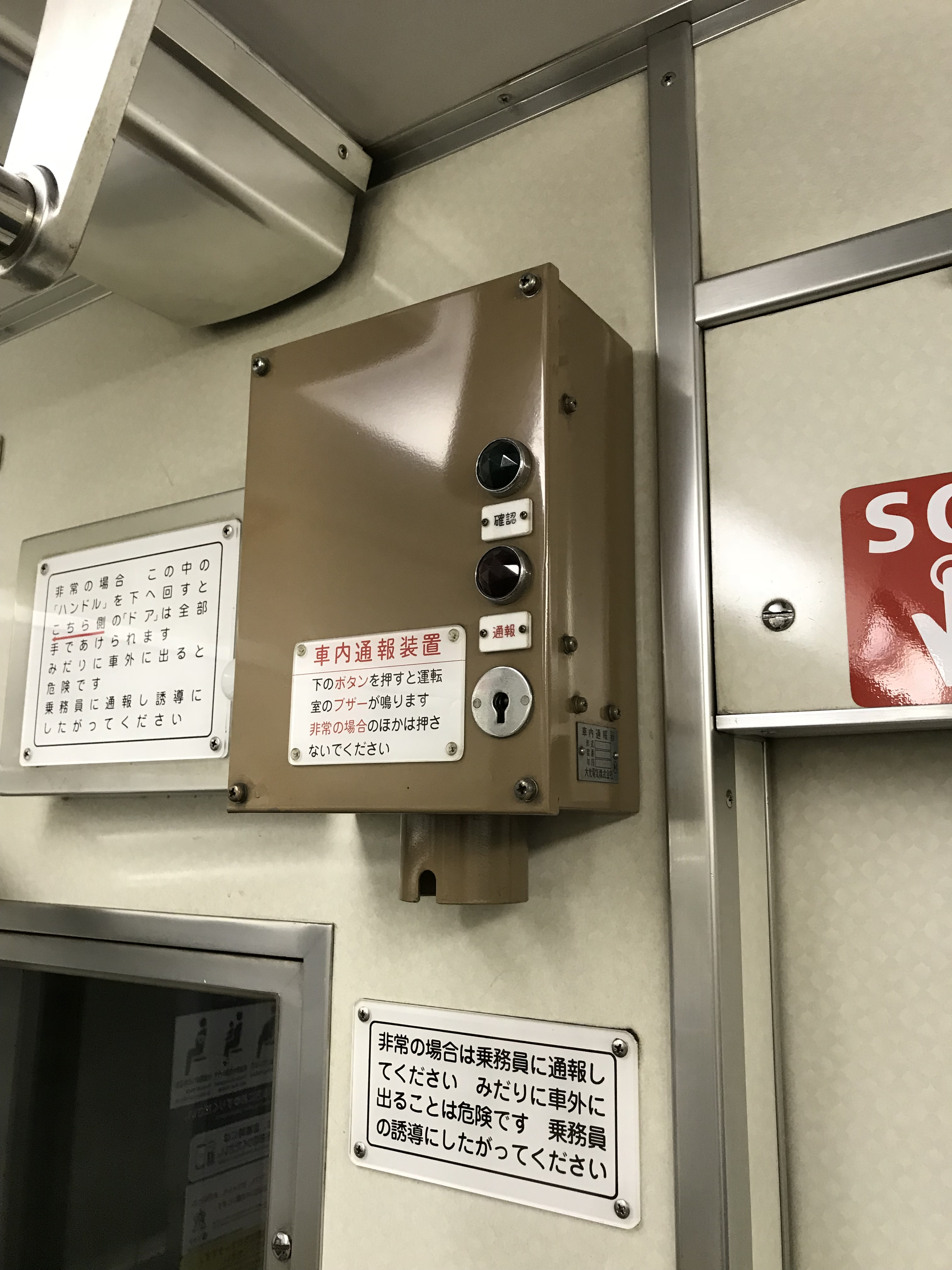 Transceiver to be used in case of emergency to communicate train operators on Kyoto subway 10 series batch 3